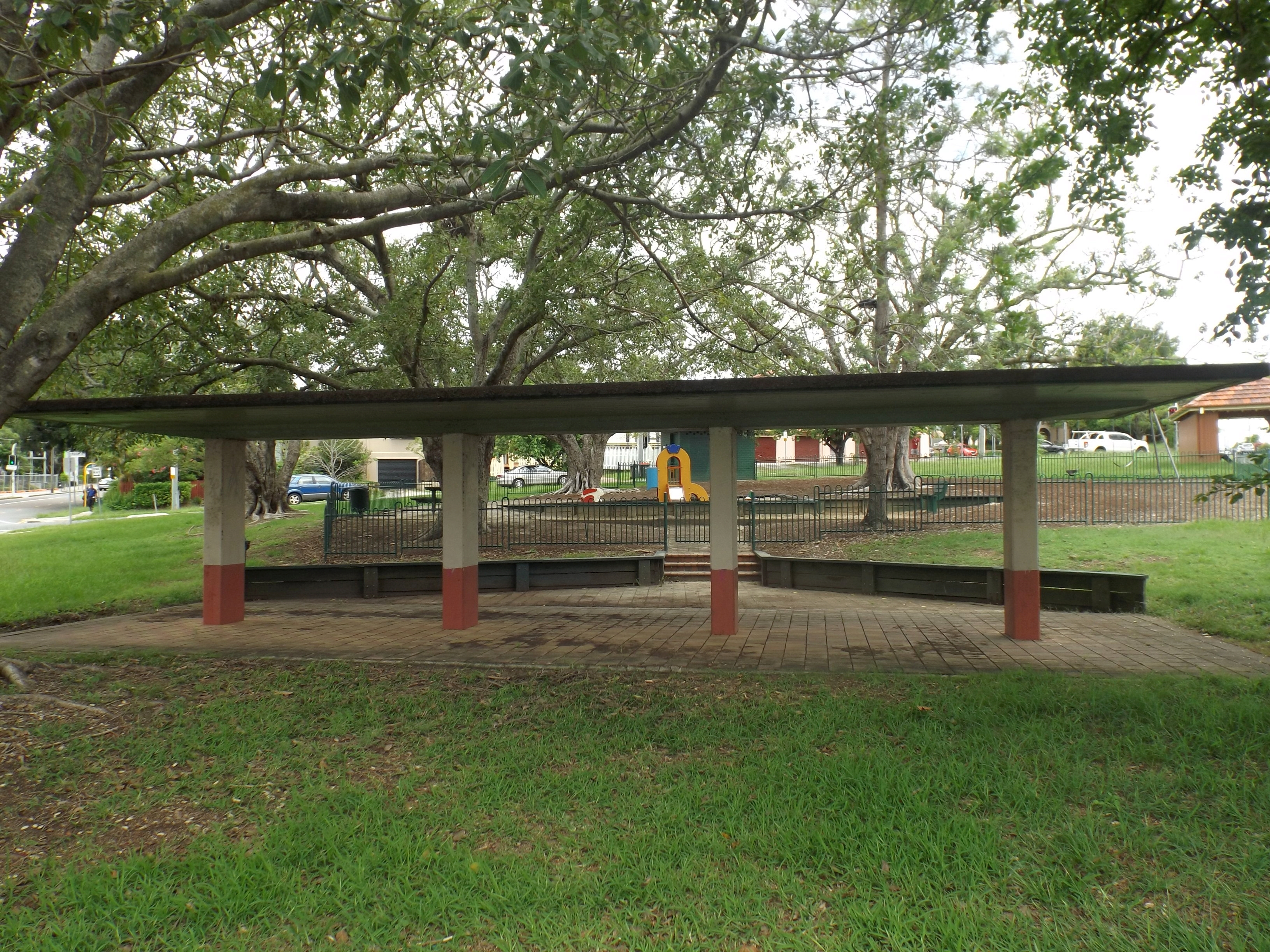 Photo of Hefferan Park Air Raid Shelter at Annerley, Brisbane, Queensland, Australia.